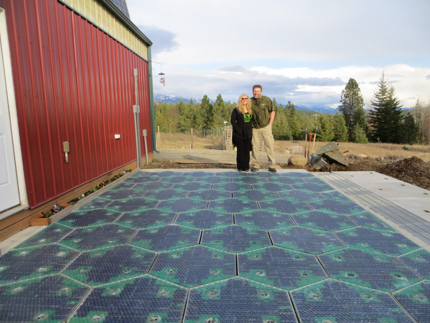 The completed parking lot prototype for the SolarRoadway project (Solar Roadways Inc., US)